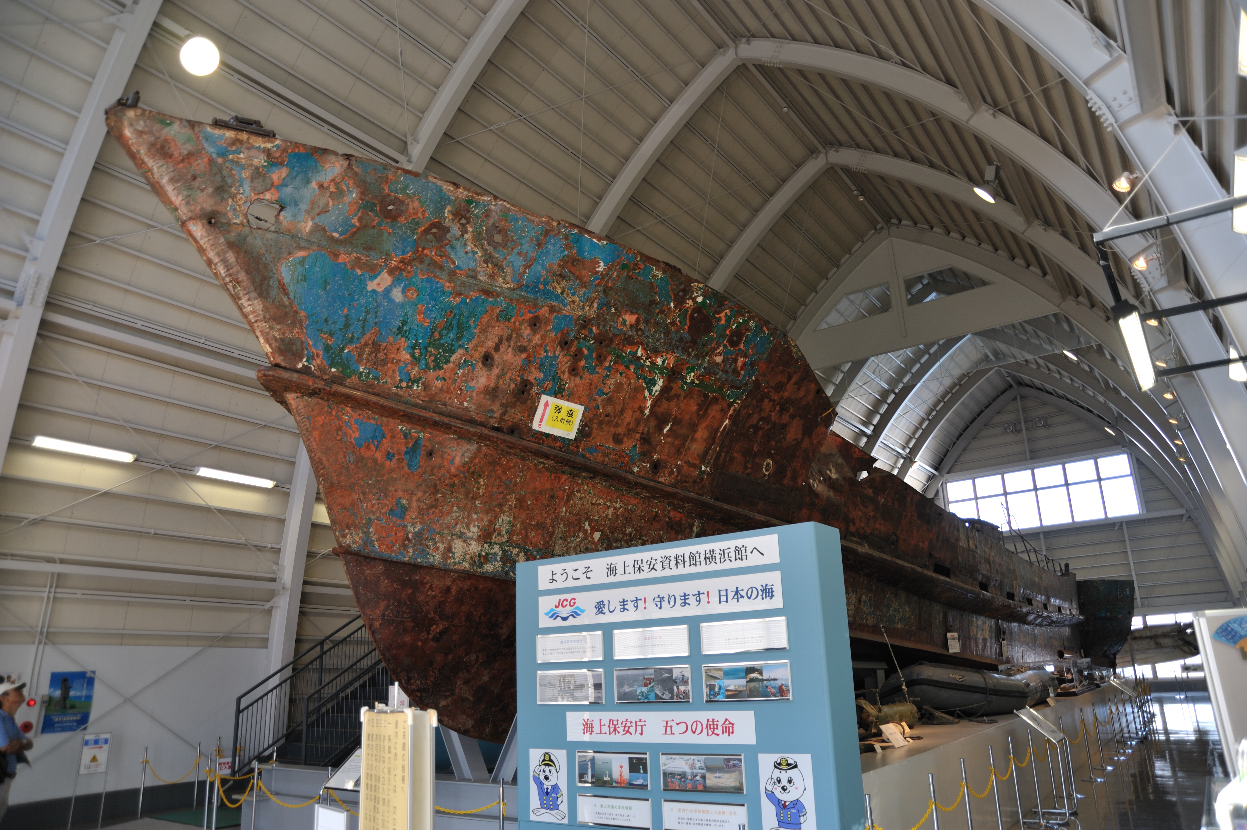 North-Korean Spy Vessel in Japan Coast Guard Yokohama Base, Kanagawa, Japan.